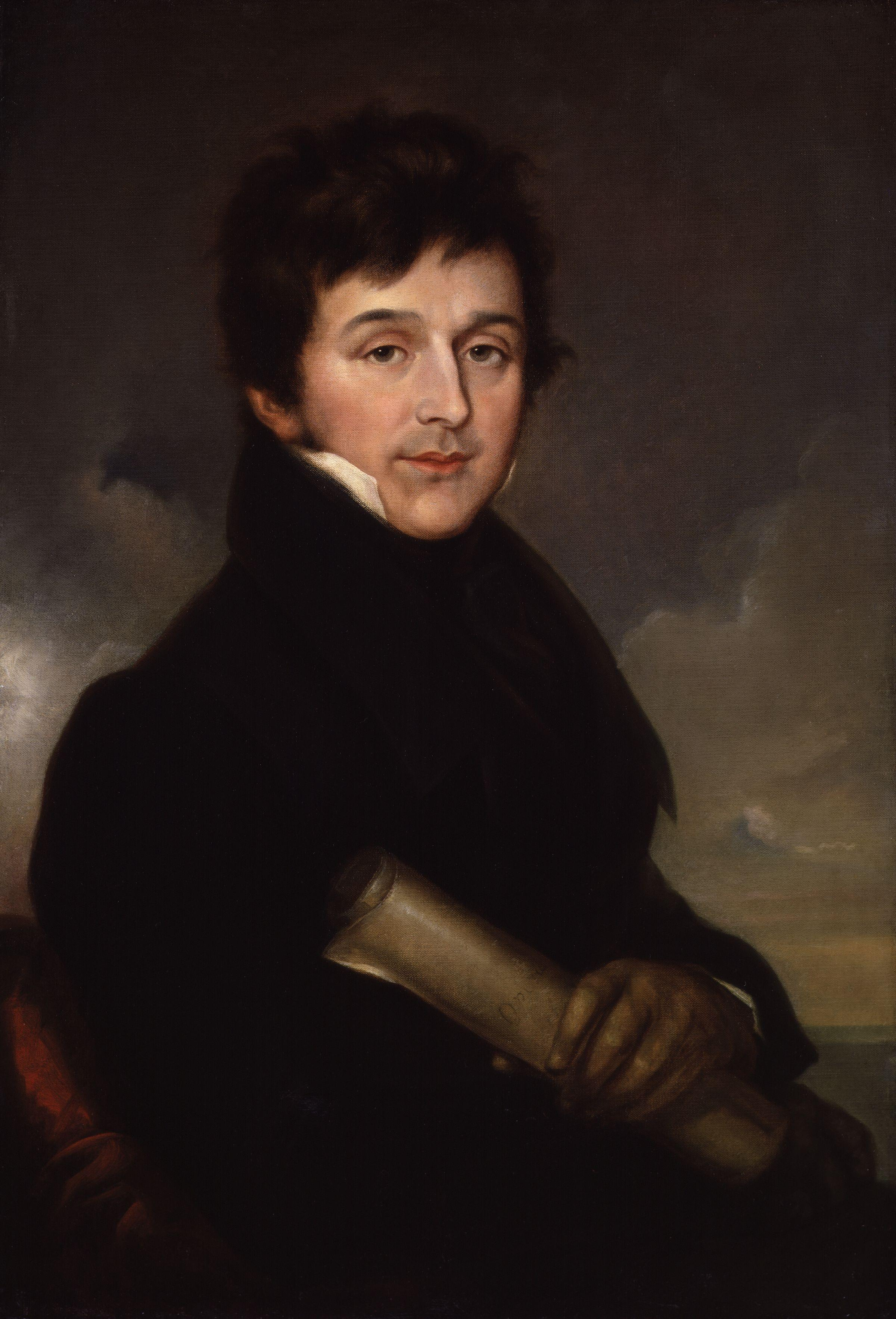 Charles Edward Horn, by Peter Edward Stroehling. All images in this batch have a known author, but have manually examined for strong evidence that the author was dead before 1939, such as approximate death dates, birth dates, floruit dates, and publication dates.